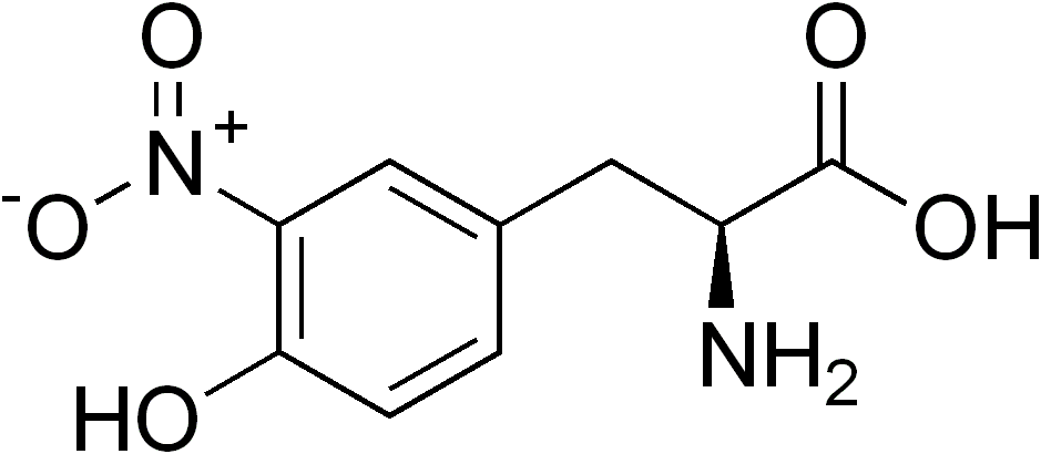 chemical structure of 3-nitro-L-tyrosine